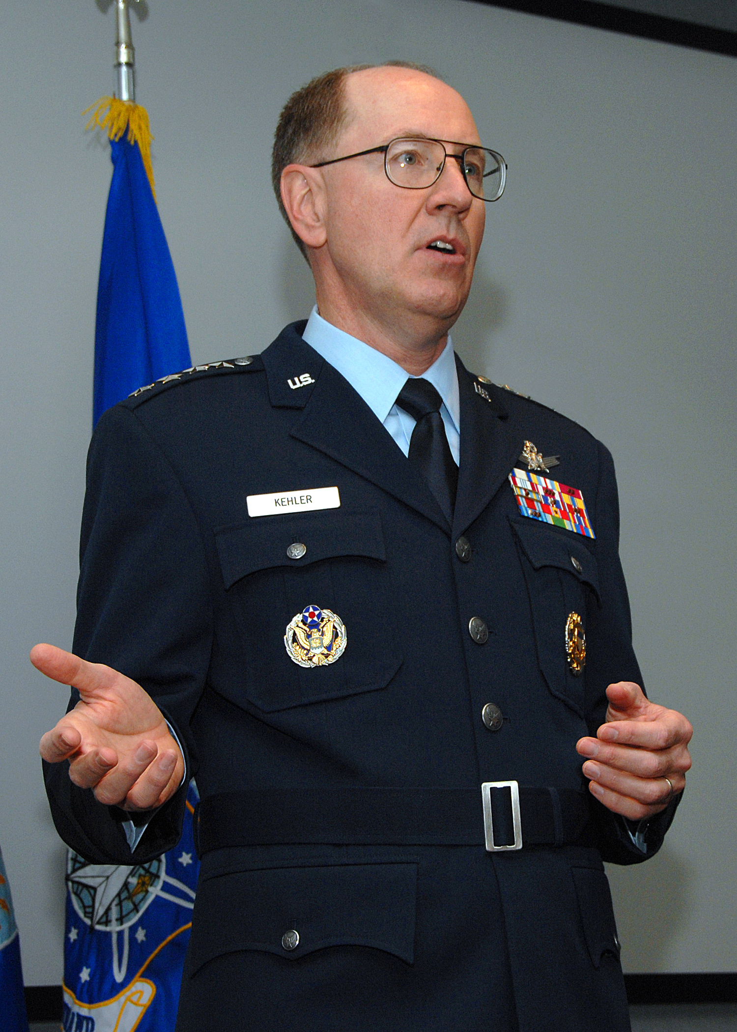 PETERSON AIR FORCE BASE, Colo. – Gen. C. Robert Kehler, commander, Air Force Space Command, models a test version of the proposed Air Force service dress during a recent ceremony. Gen. T. Michael Moseley, Air Force Chief of Staff, initiated the program to update the service dress coat to better reflect Air Force heritage. The current prototype is based on a design similar to the uniform worn by Gen. Henry "Hap" Arnold during World War II. (U.S. Air Force photo by Tech. Sgt. Matthew Lohr)